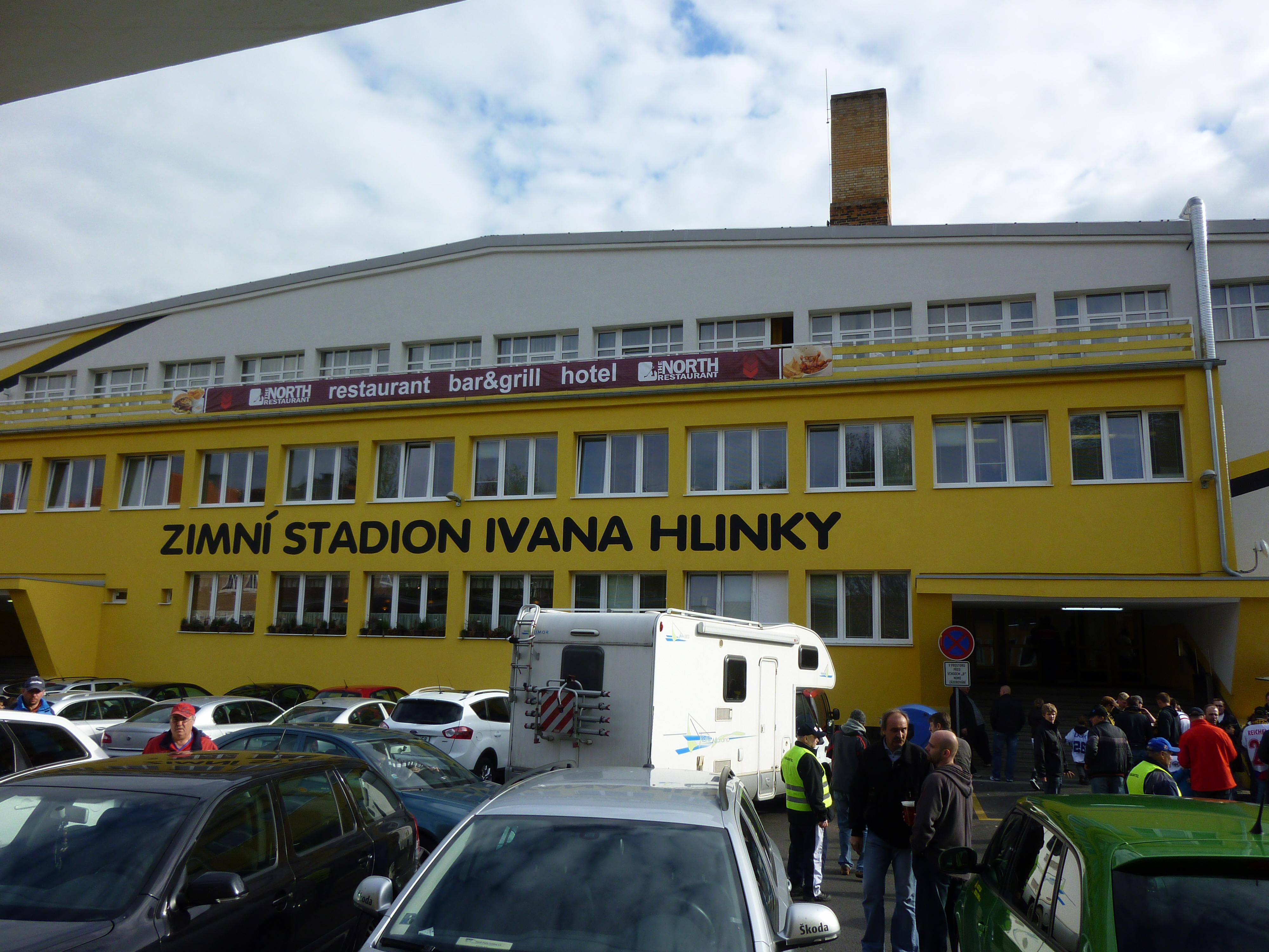 View of the Ivan Hlinka Arena in Litvinov before an international game between the Czech Republic and Switzerland